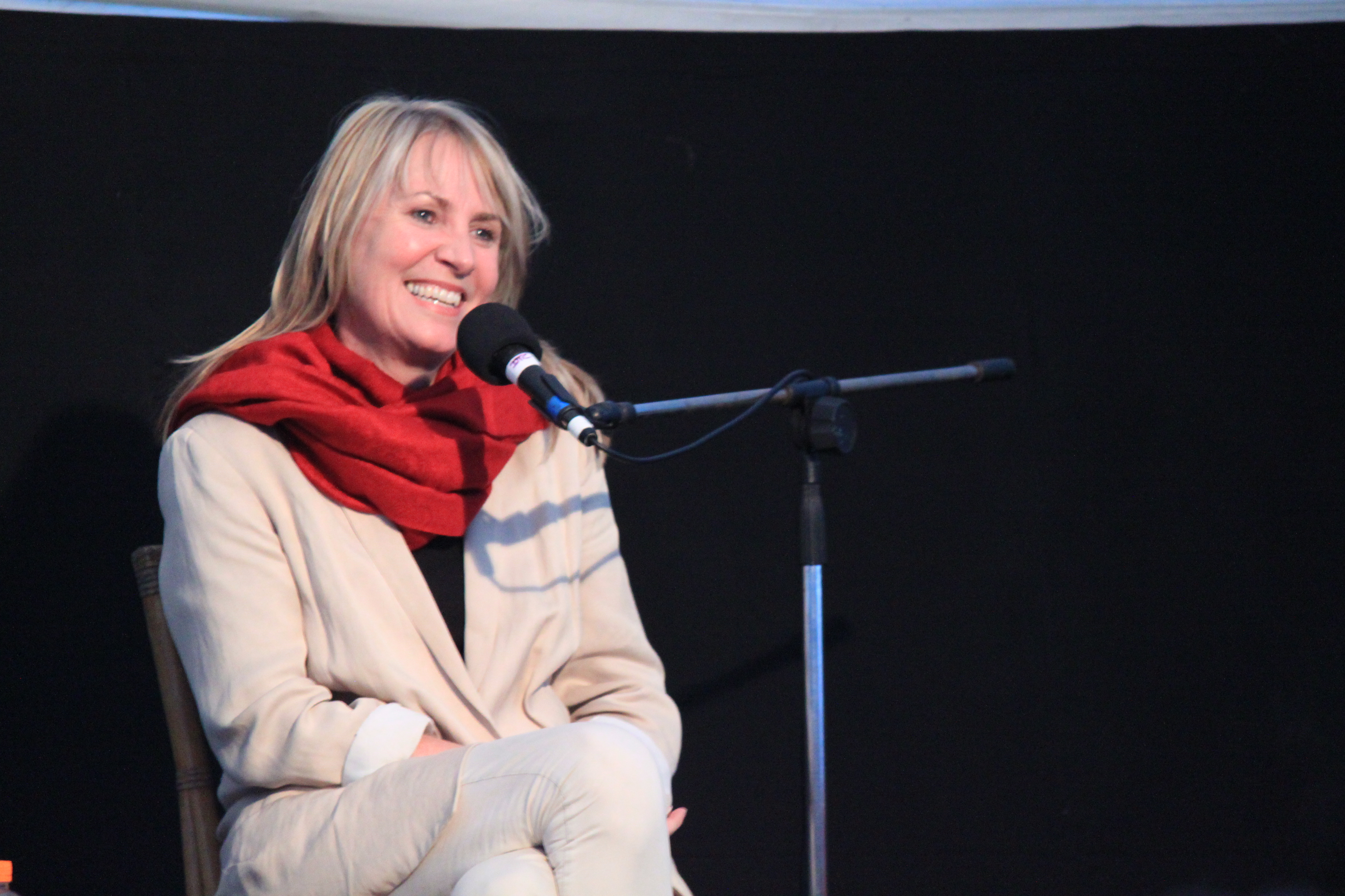 Australian actress, director, playwright and author Ailsa Piper at the Byron Bay Writers' Festival in 2012.